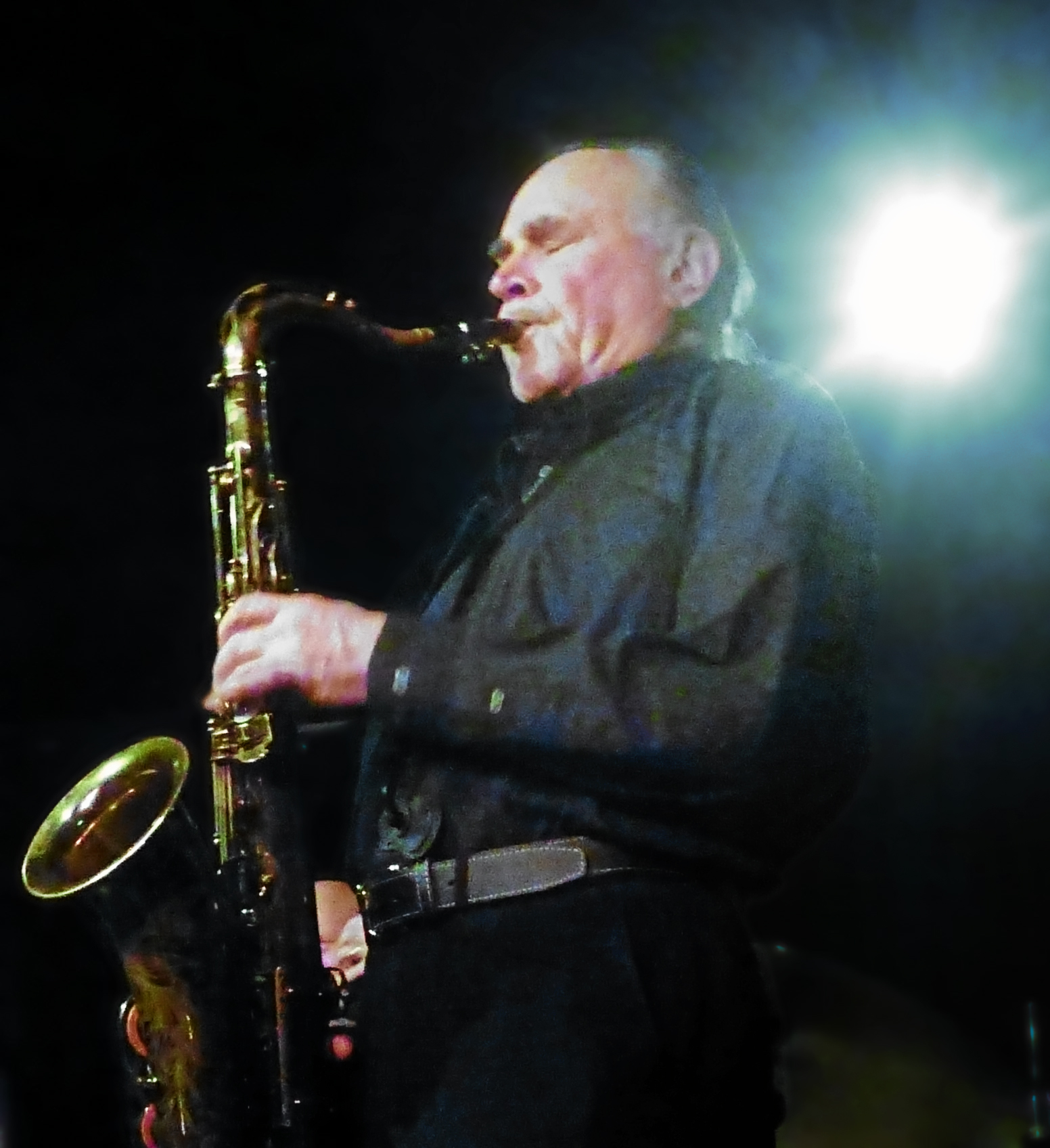 Australian Jazz musician, Col Loughnan playing tenor saxophone at Venue 505 in August 2015.